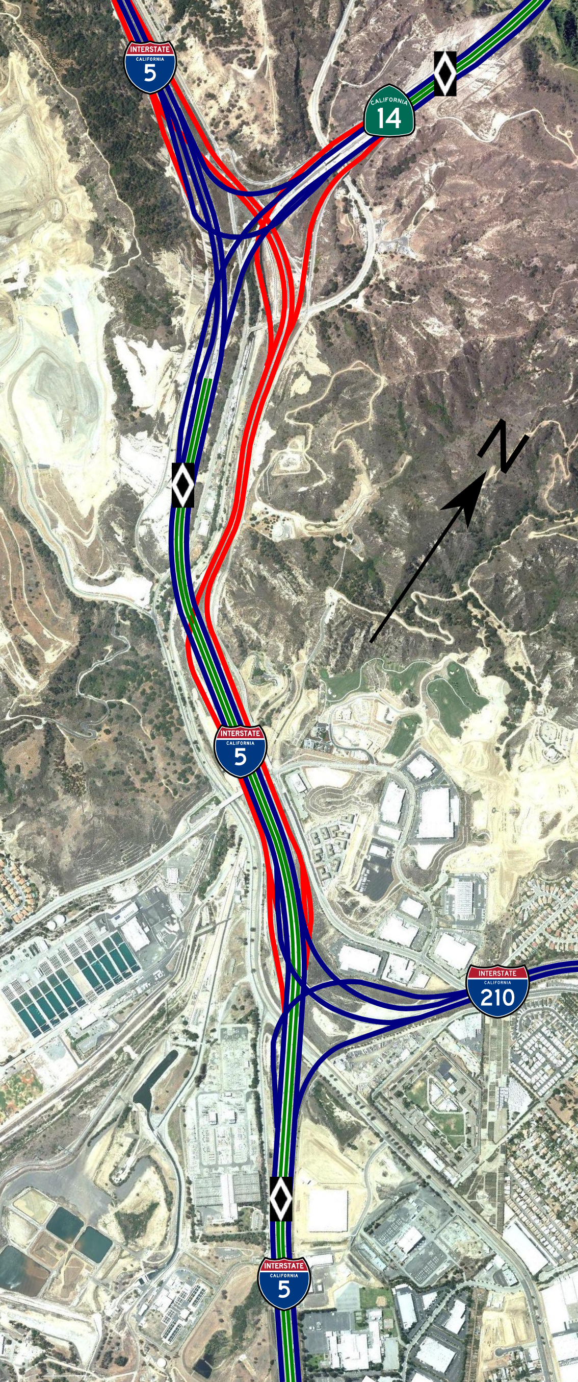 Aerial map and diagram of the Newhall Pass Interchange — at Newhall Pass in the northern San Fernando Valley, Los Angeles County, Southern California. The interchange's roads, bridges, and tunnels connect north-south Interstate 5 (Golden State Freeway) with northeast bound State Route 14 (Antelope Valley Freeway). LEGEND: Blue — General Purpose Lanes. Red — Truck Lanes. Green — HOV Lanes. NOTE: Interstate 210 is presented in this diagram in the context of the truck lanes, it is not typically considered part of the Newhall Pass Interchange.